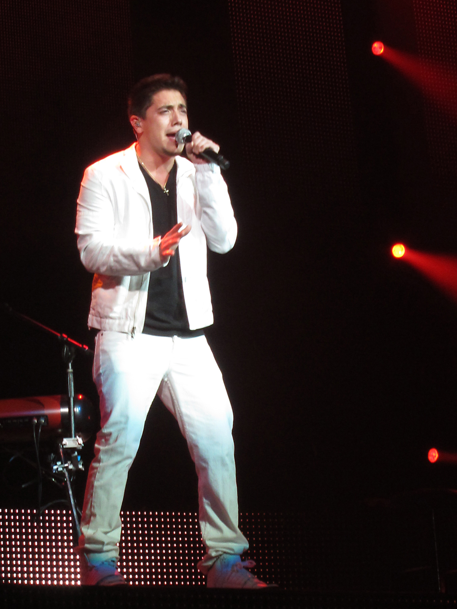 Stefano Langone performing.